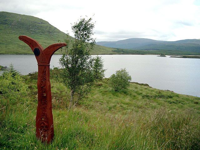 Loch Dee. With National Cycle Way marker. Looking NNE from the track. Good wild camping at loch side.